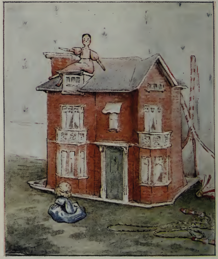 The dolls and their dollhouse, from The Tale of Two Bad Mice